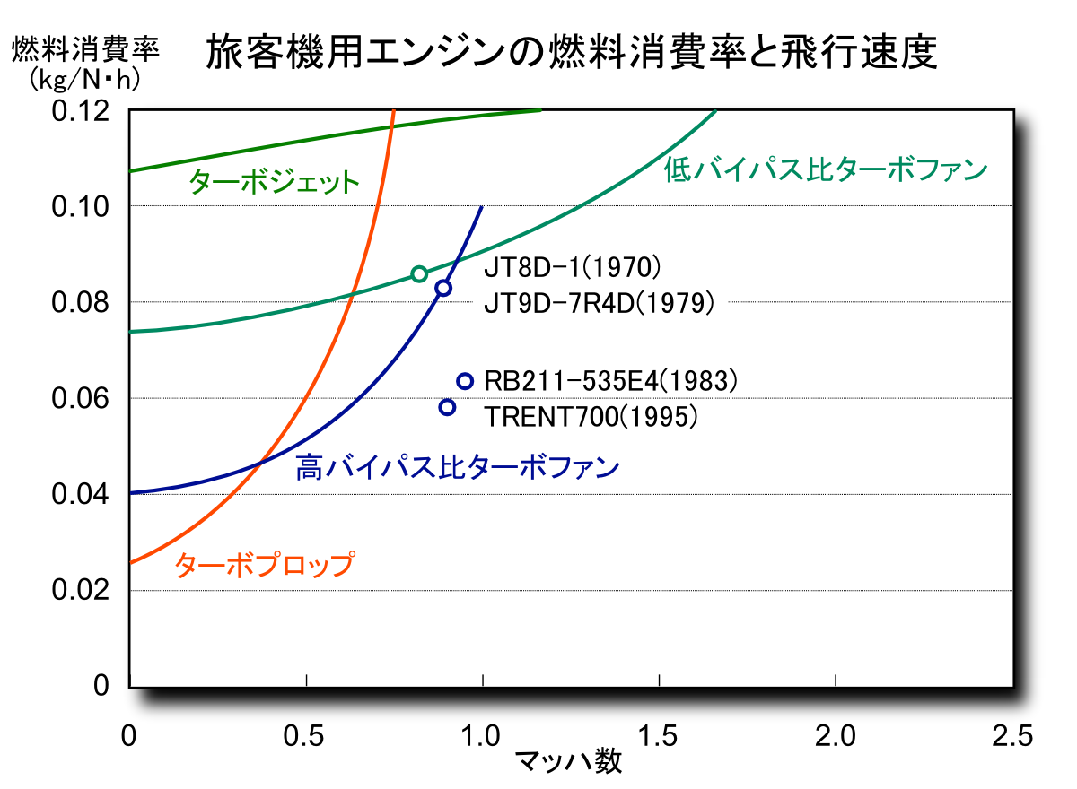 Jet engines' Thrust specific fuel consumption vs Mach speed